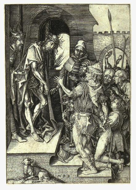 Martin Schongauer, Ecce Homo, Engraving 15. th century